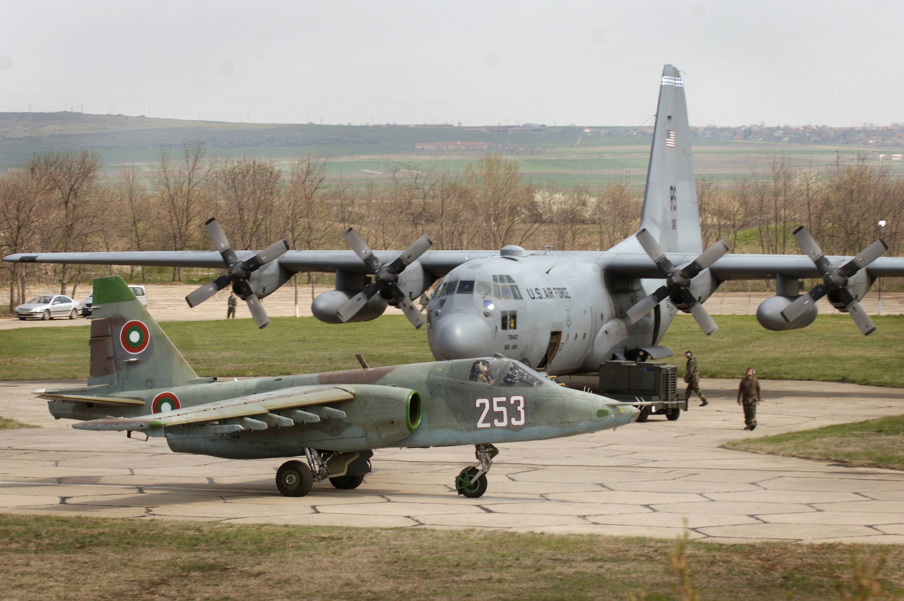 A Bulgarian air force SU-25 Frogfoot aircraft taxis past a U.S. Air Force C-130E Hercules aircraft at Bezmer Aviation Base, Bulgaria, March 31, 2008, prior to flying a sortie for exercise Thracian Spring 2008. The annual bilateral training exercise between the United States and Bulgaria provides training and improves interoperability between the two nations. (U.S. Air Force photo by Master Sgt. Scott Wagers) (Released)